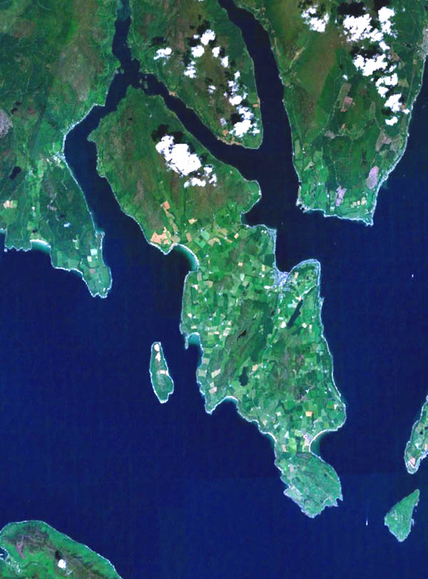 Landsat image of Isle of Bute in Scotland. Made with NASA's World Wind.